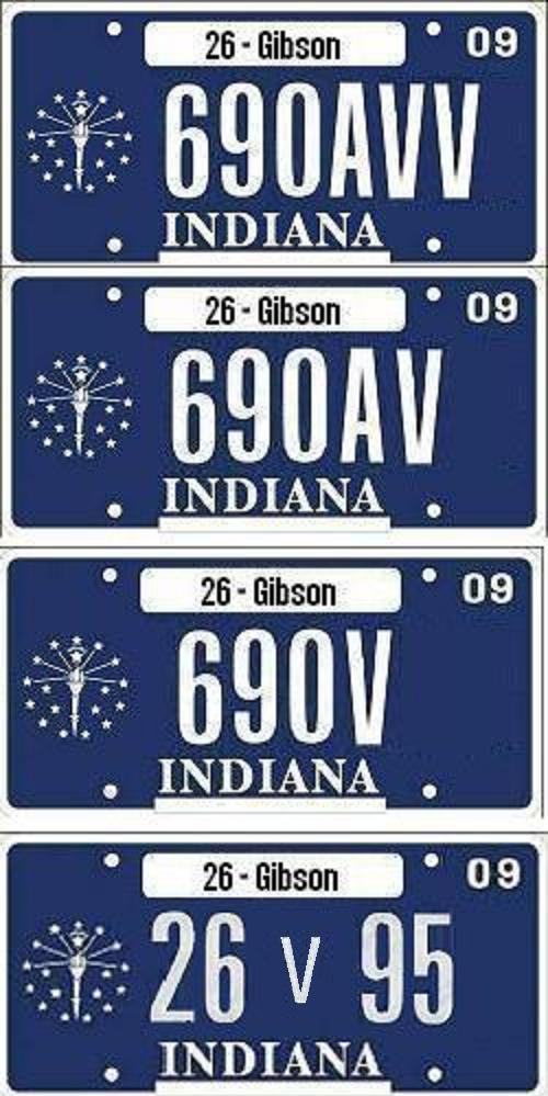 Image Showing the four versions of the current Indiana Plate (2008-2014)